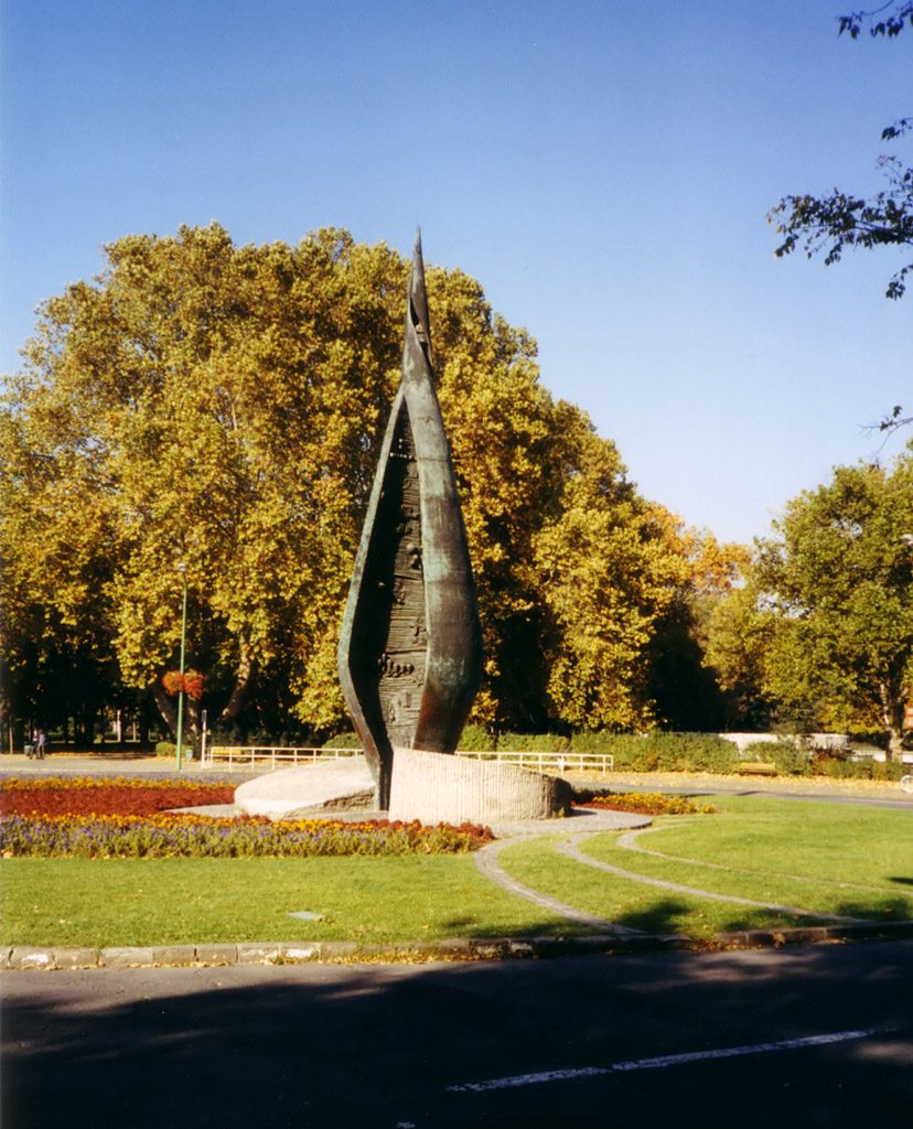 Unification of Pest-Buda 100 anniversary memorial (1972) by István Kiss on Margaret Island, Budapest, Hungary This reproduction is permitted under article 68 of the Hungarian copyright law (1999/LXXVI), which specifies that if a fine art, architectural or applied art creation is erected with a permanent character outdoors in a public place, a view of it may be made and used without the authorization of the author and paying remuneration to him. Note: According to the article 68 Paragraph (5), the provision of Article 34, Paragraph (1), that "from a disclosed work any part may be cited by indication of the source and naming the author indicated as such", shall not be applicable to the use of fine art, artistic photographic and applied art creations. According to the article 67 Paragraph (3) the author’s name has to be indicated on a view if this is intended to present a specific fine art, architectural, applied art or industrial design creation or engineering structure. The author’s name has likewise to be indicated if such creations are used for presentation in scientific and educational lectures as well as for school education purposes (Article 33, Paragraph (4)). See COM:CRT/Hungary#Freedom of panorama for more information. English | magyar | +/−